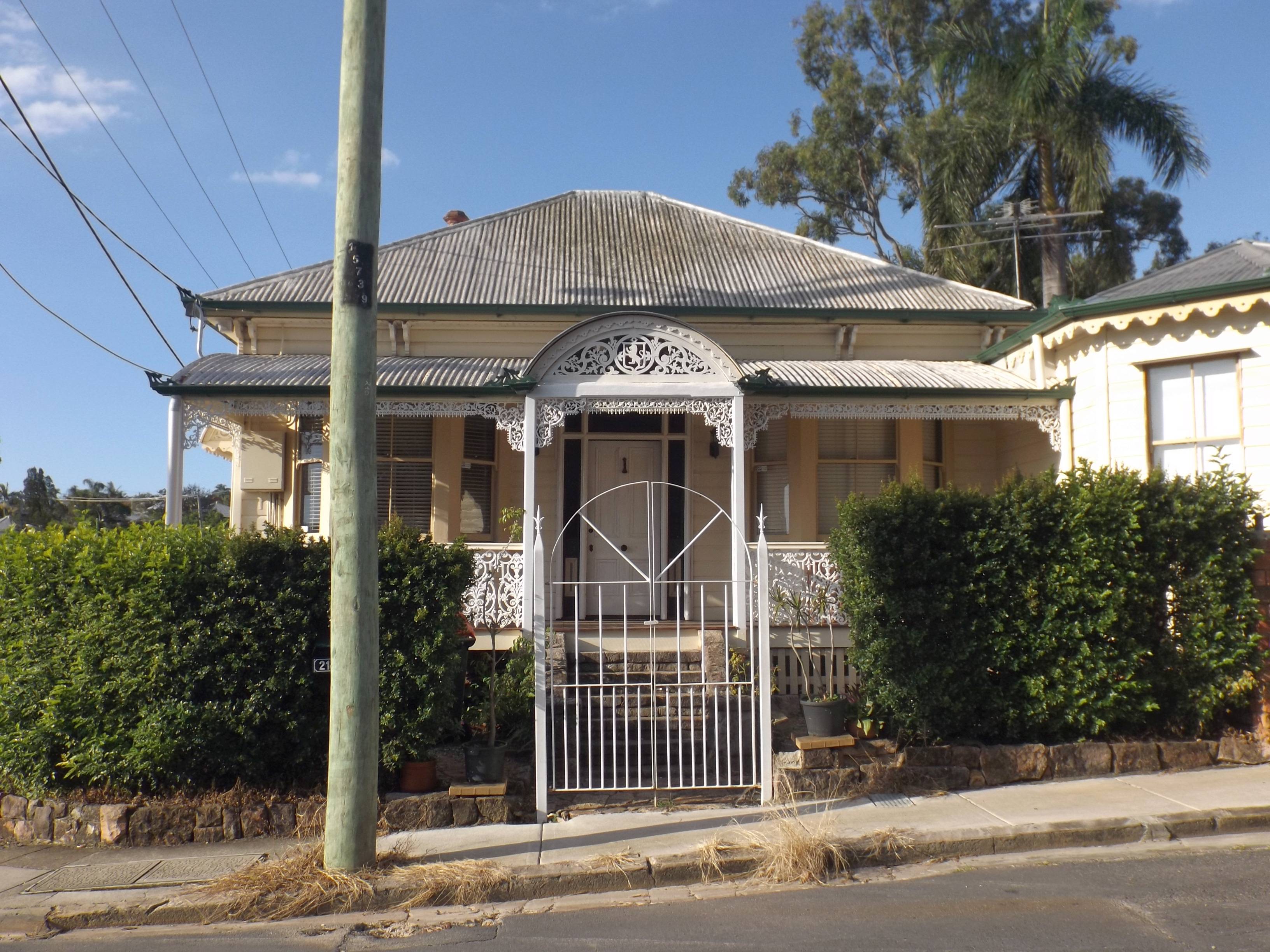 Photo of Dunaverty residence at Albion, Brisbane, Queensland, Australia.